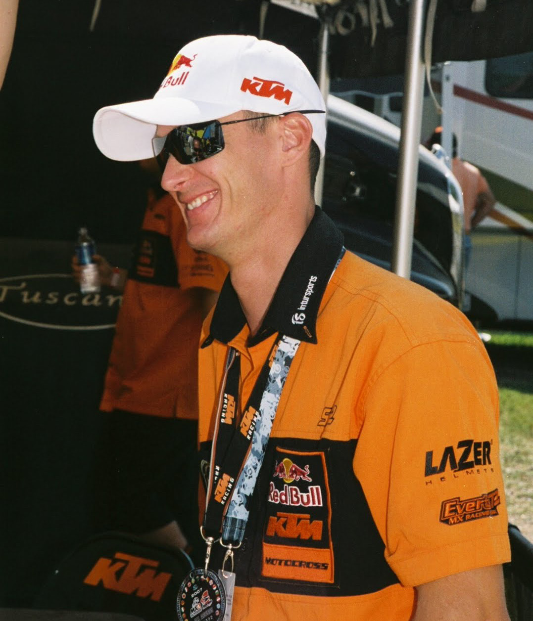 10 times World Champion in motocross. Stefan is the best motocross racer ever. He isn't the greatest though, that honor belongs to DeCoster. Everts dad, Harry was also a 4 time World Champion. They are the only father/son world champions. (original text)